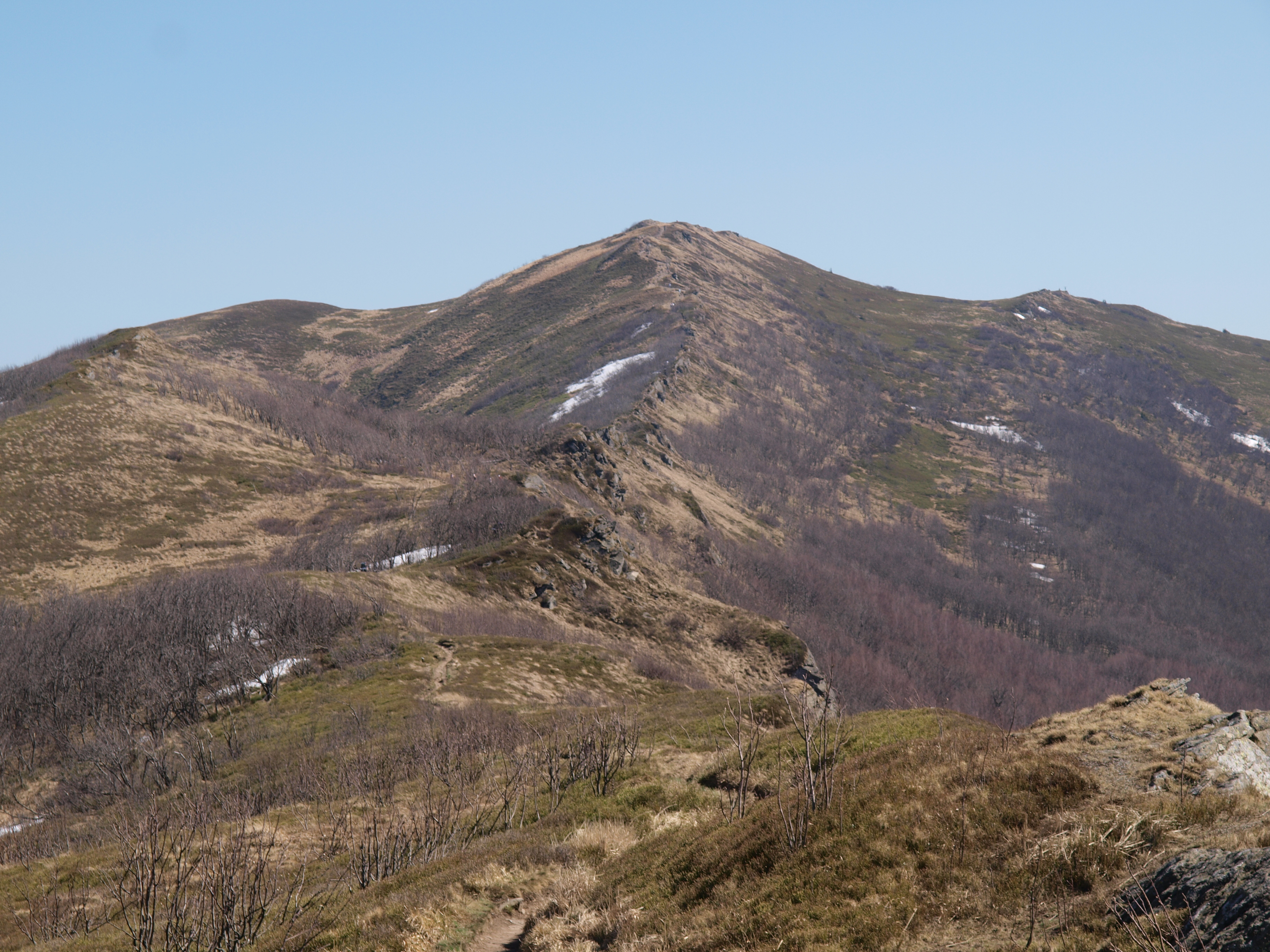 Bukowe Berdo in Bieszczady mountains in Spring.